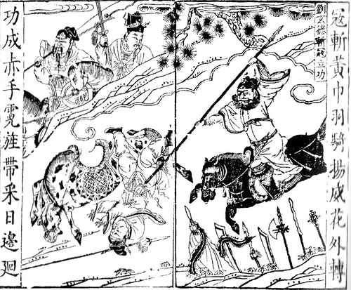 A Qing Dynasty illustration of Liu Bei, Guan Yu, and Zhang Fei during the 184 Yellow Turban Rebellion in China.